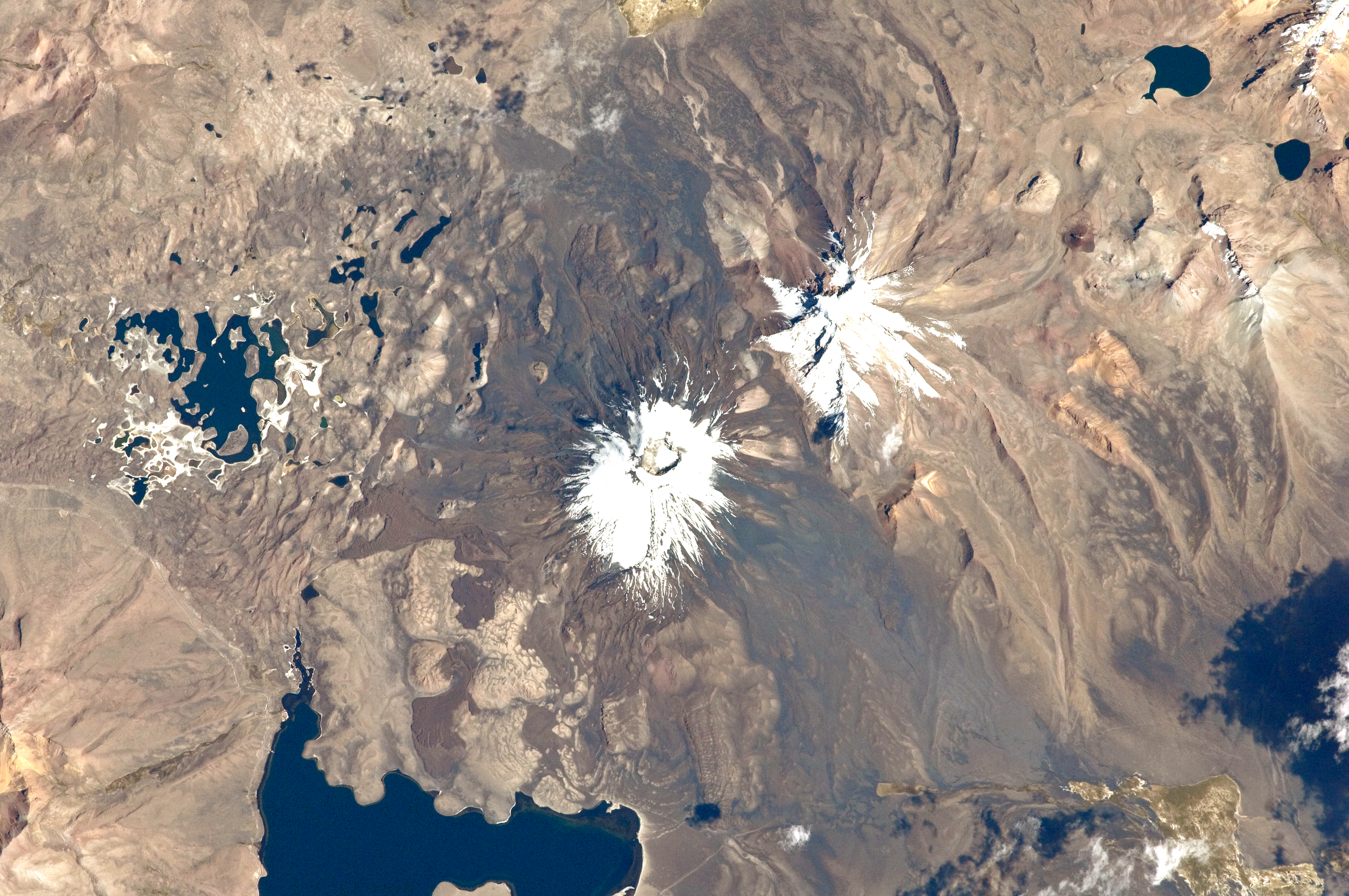 This astronaut photograph from the International Space Station highlights the symmetrical cone of Parinacota, with its well-developed summit crater (elevation 6,348 meters above sea level). Dark brown to dark gray surfaces to the east and west of the summit include lava flows, pyroclastic deposits, and ash. A companion volcano, Pomerape, is located across a low saddle to the north. This volcano last erupted during the Pleistocene Epoch (approximately 3 million to 12,000 years ago). Together, Parinacota and Pomerape form the Nevados de Payachata volcanic area. The summits of both volcanoes are covered by white snowpack and small glaciers. Eruptive activity at Parinacota has directly influenced development of the local landscape, beyond the placement of volcanic deposits. Approximately 8,000 years ago, the western flank of the volcano collapsed, creating a debris avalanche that travelled 22 kilometres to the west. The debris blocked rivers and streams, leading to the formation of Chungará Lake to the south (lower left). The uneven, hummocky surface of the avalanche debris provides ample catchments for water, as evidenced by the numerous small ponds and Cotacotani Lake to the west.